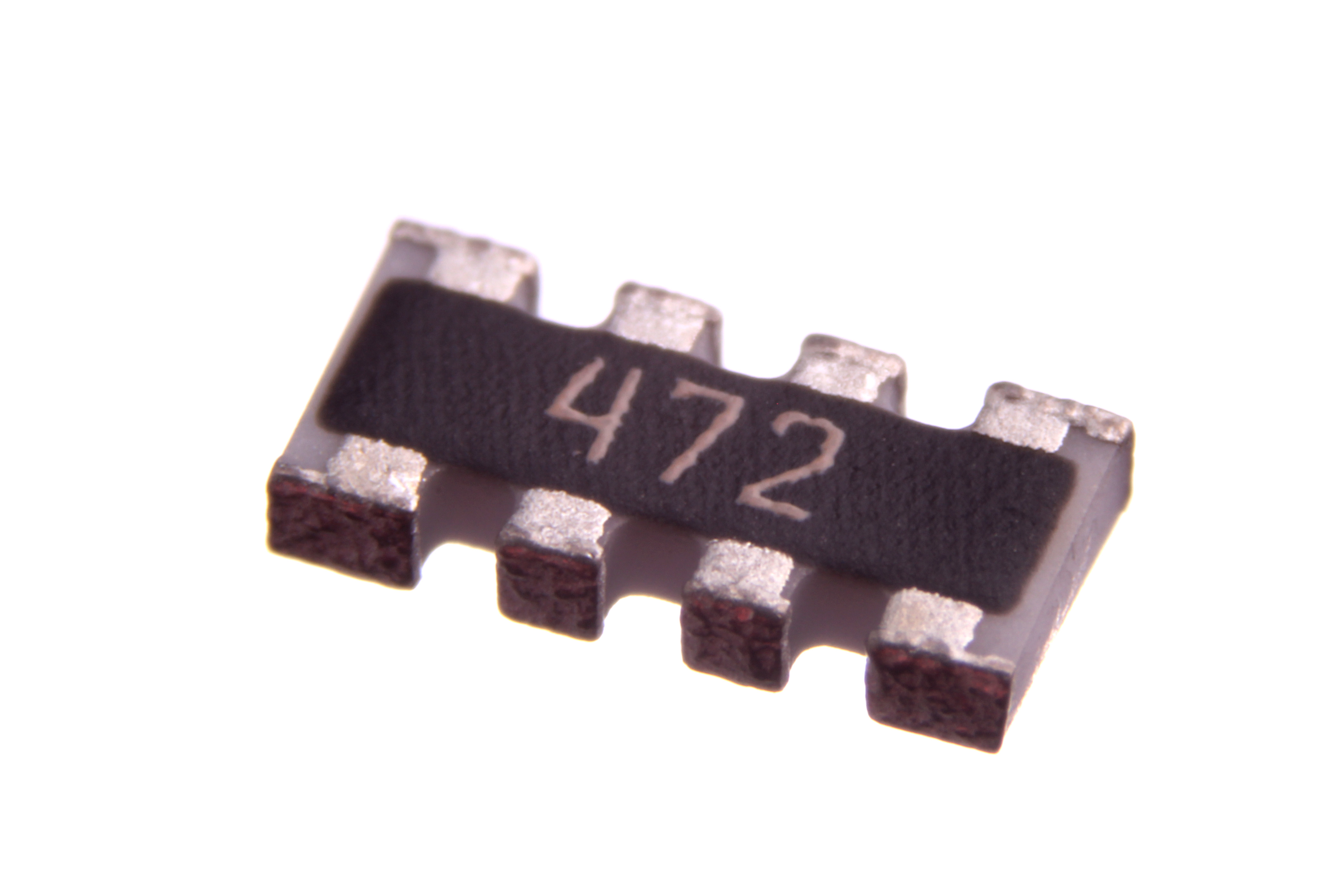 4.7 kiloohms SMD 1268 4X resistor array.